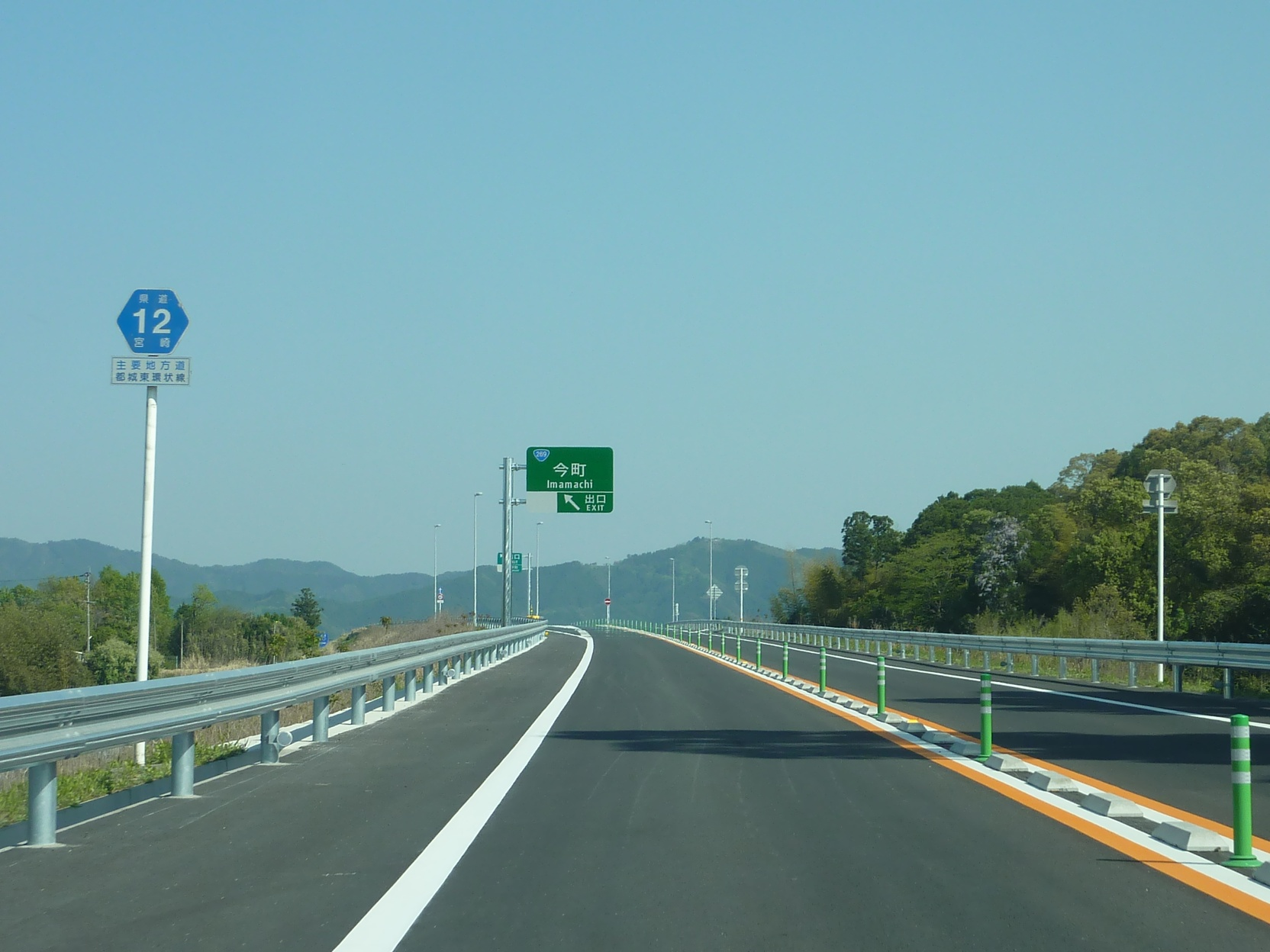 Miyakonojo - Shibushi Road (Imamachi, Miyakonojo City, Miyazaki Prefecture, Japan)